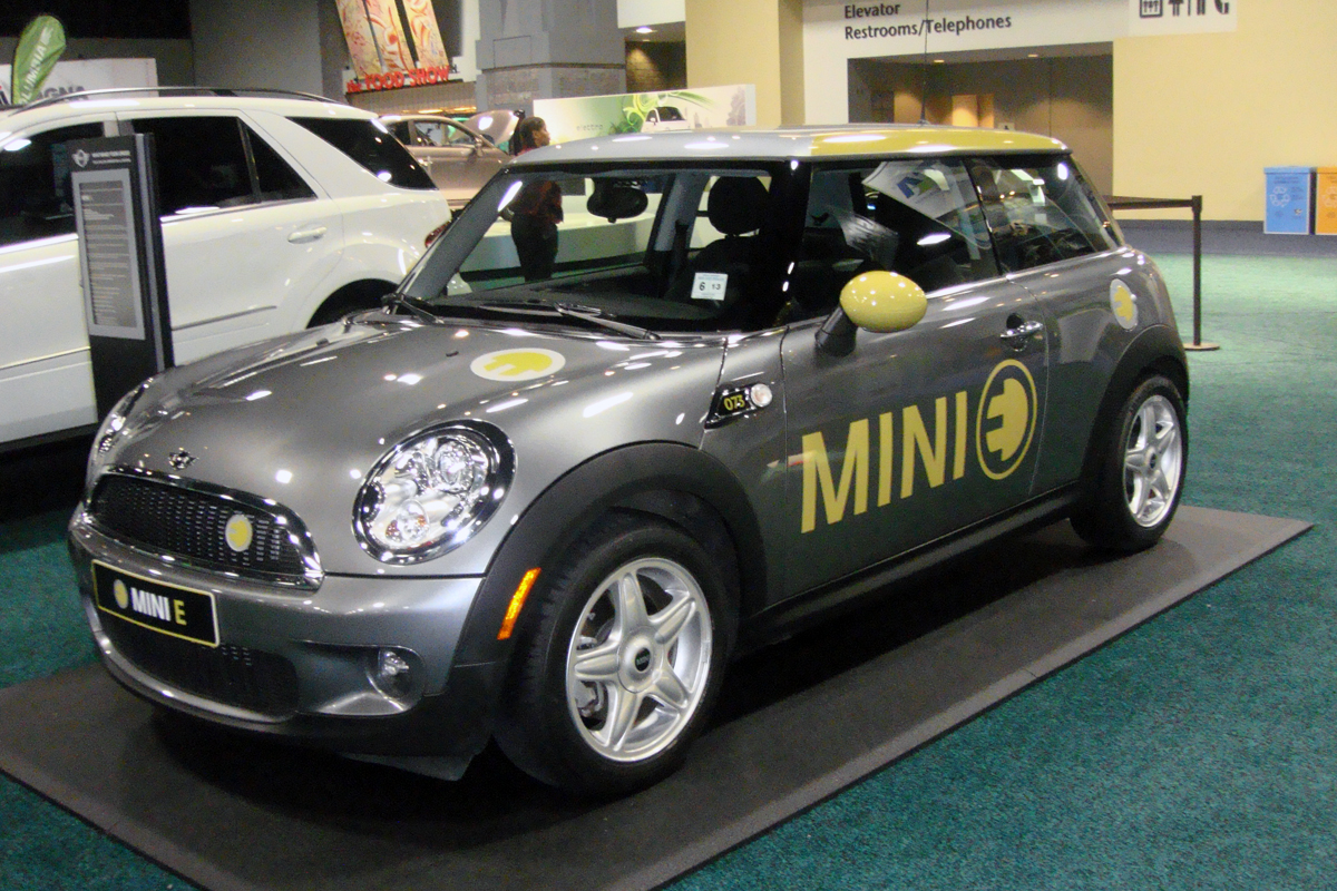 BMW Mini E (electric vehicle) at the 2010 Washington Auto Show